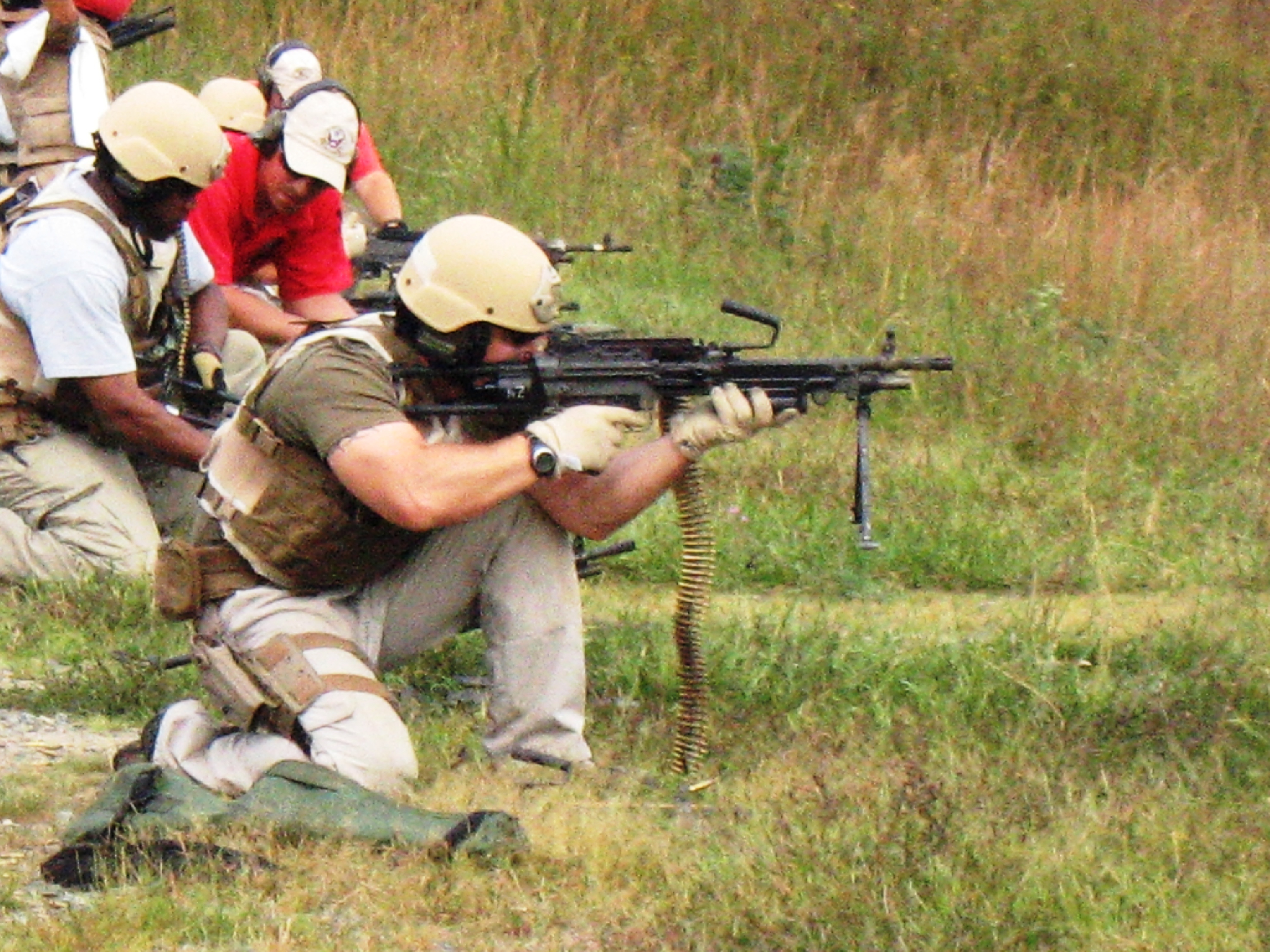 Diplomatic Security Service on the range training with the M249 Squad Automatic Weapon (SAW)